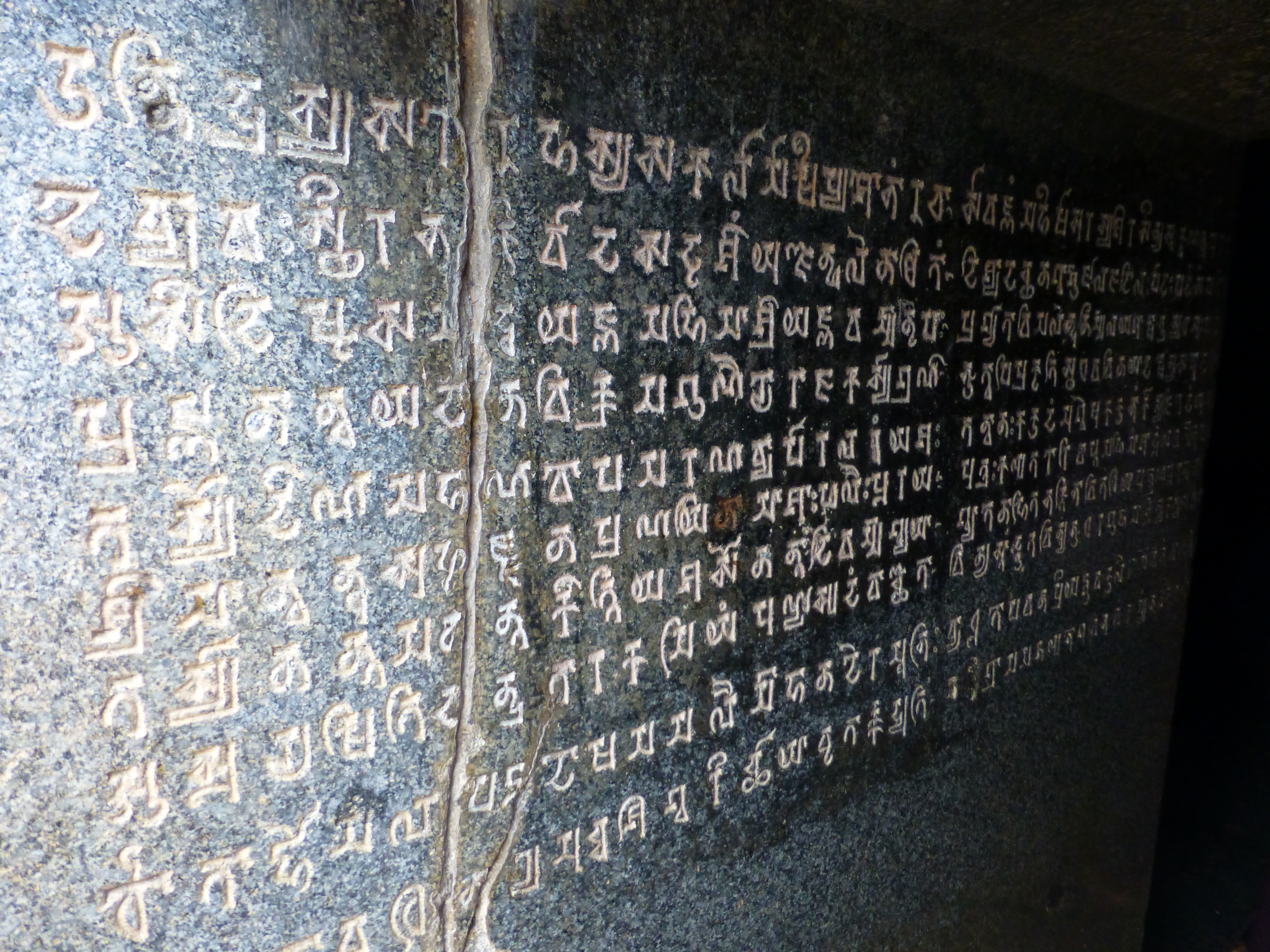 007 Asokan Inscription at Barabar, Bihar Photograph from the Barabar Caves in Bihar taken by Anandajoti. The photo shows one of the Nagarjuni Hill Cave inscriptions of Anantavarman Maukhari, nearly a millennium later than Aśoka (the same cave does have an Aśokan inscription too, but this is not it).